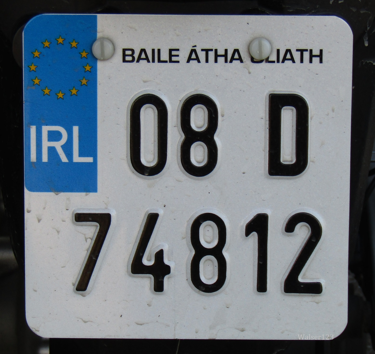 Ireland - motorcycle license plate